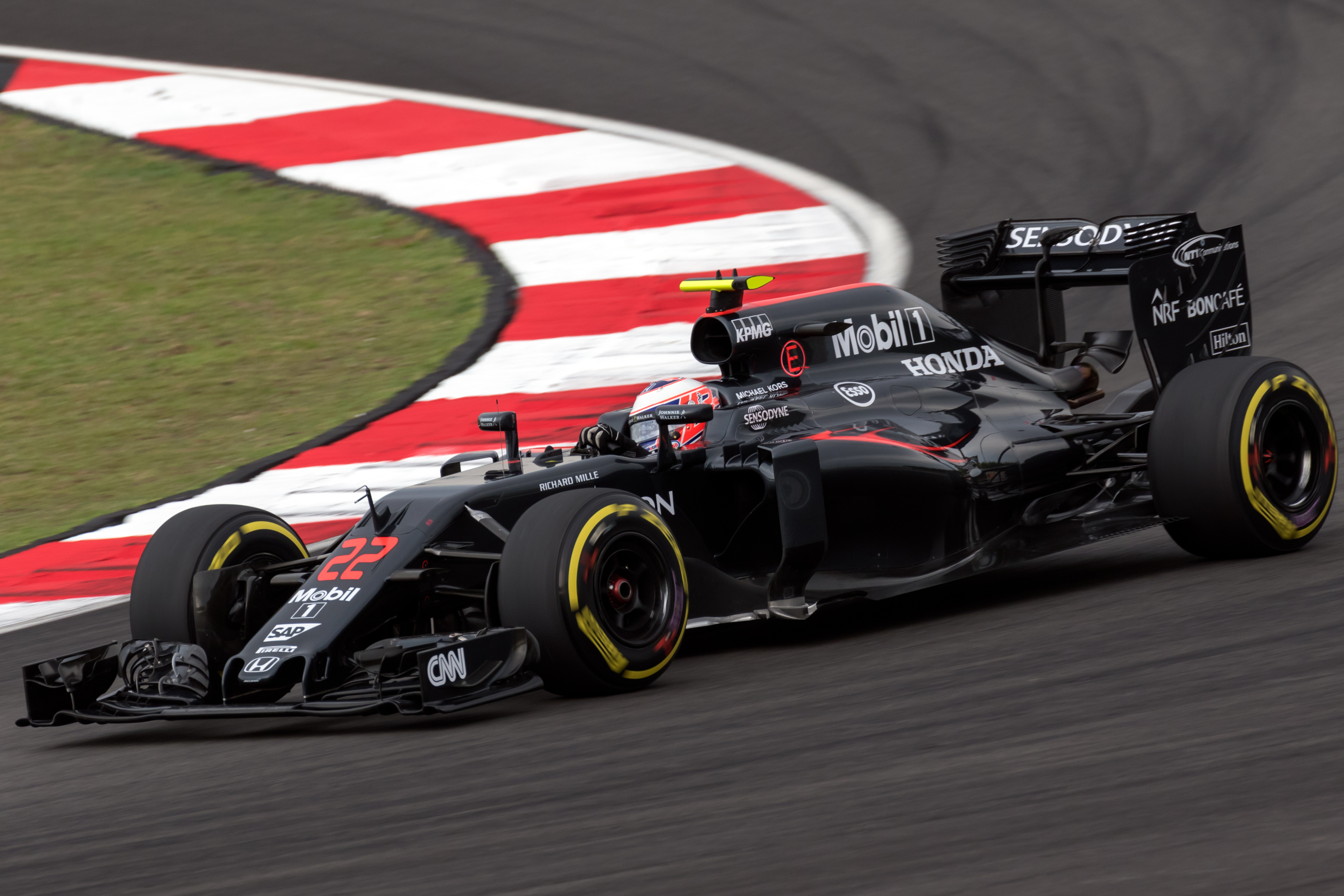 Formula One 2016 Rd.16 Malaysian GP: Jenson Button (McLaren)